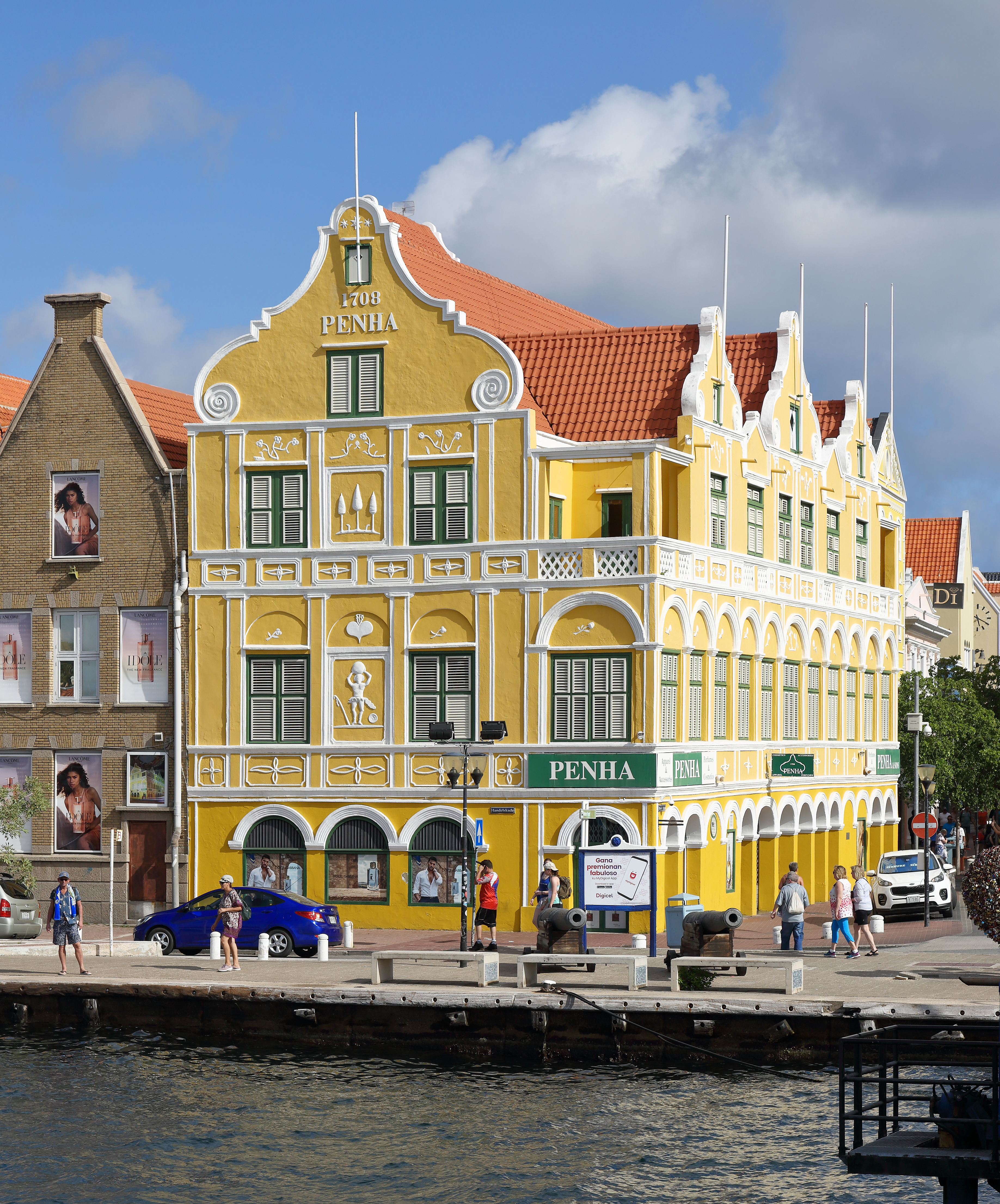 Penha Building on Handelskade, Willemstad, Curaçao, finished in 1708.